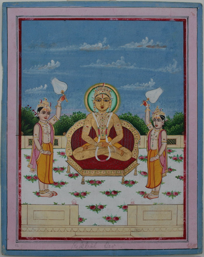 From a series of Vishnu Avataras: Rishabha. Jaipur, circa 1860. Opaque watercolour with gold on wasli. 25.7 x 20.6cm Rishabha is the 8th avatara of Vishnu in the Bhagavata Purana. In Jainisam he is the 1st Jina. Elsewhere in Hinduism the 8th avatara is Buddha. Ref: 000379